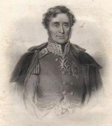 FitzRoy Somerset, 1st Baron Raglan (* 30th September 1788 in Badminton, Gloucestershire; † 28th June 1855 near Sewastopol)